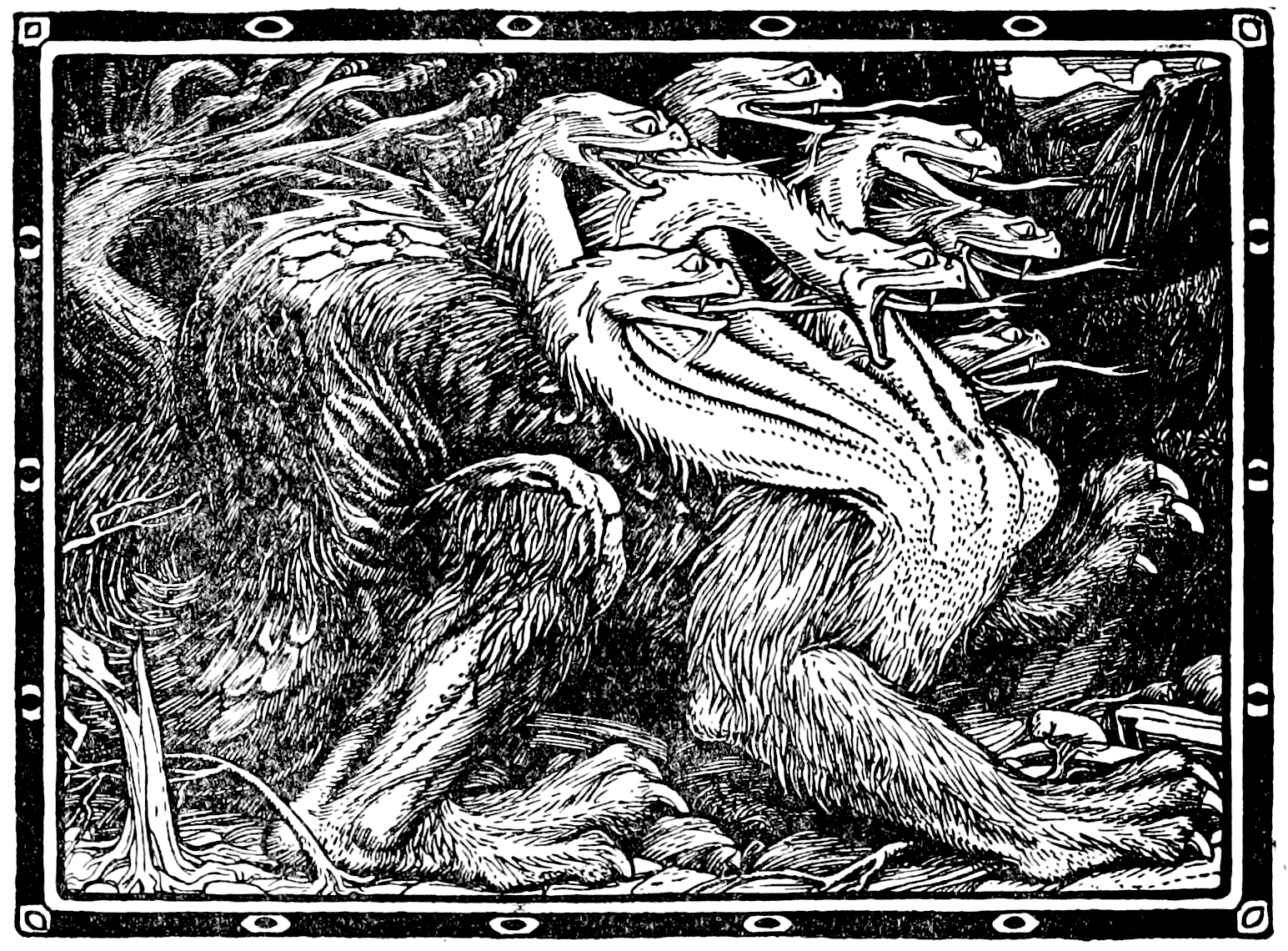 Illustration from a book of fairy tales from Europe, translated into english